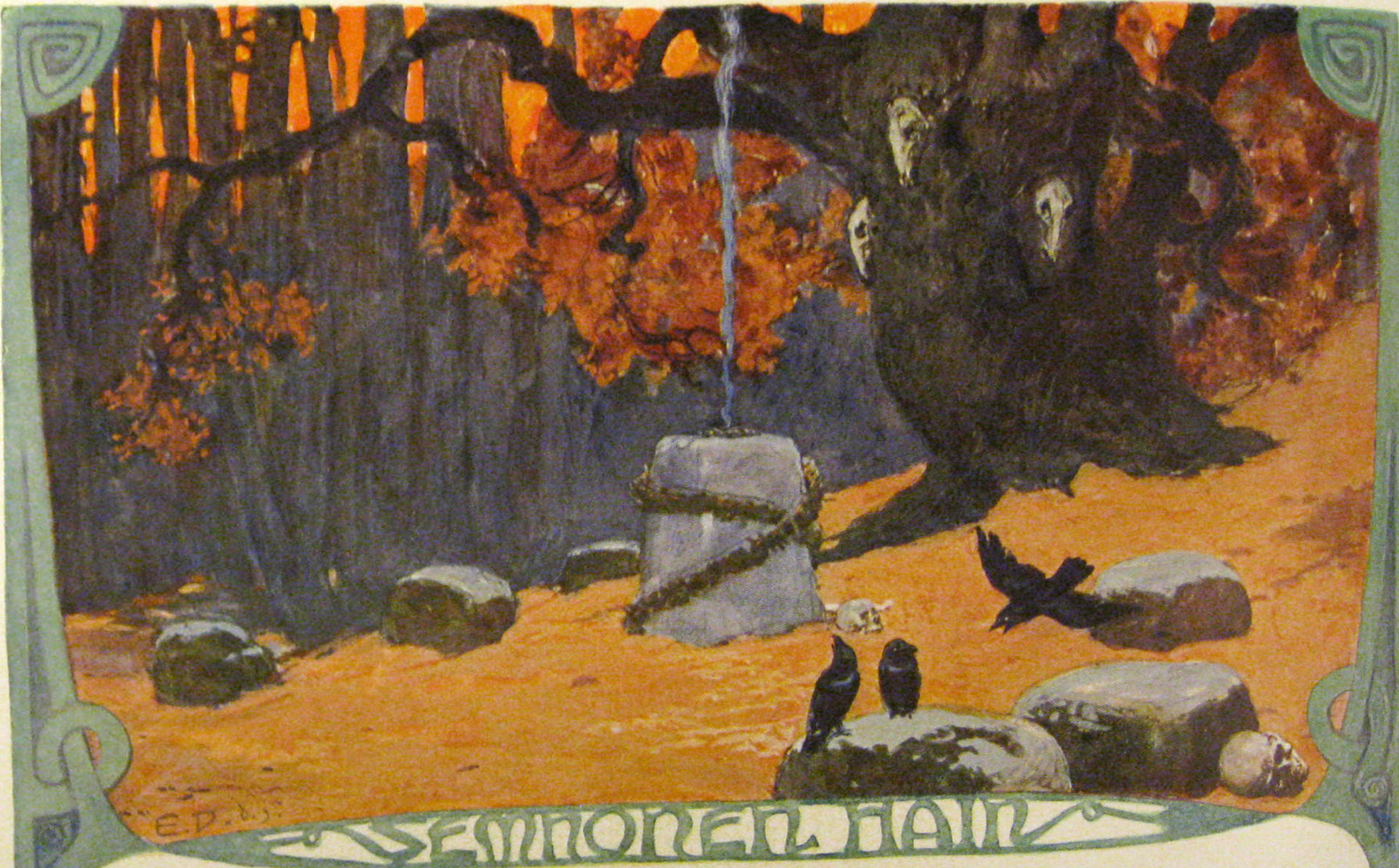 The "Grove of Fetters" of the Germanic Semnoni. Inspired by the account from Tacitus' first century AD work Germania.